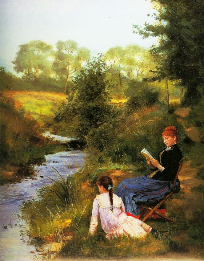 "A Summer Day"